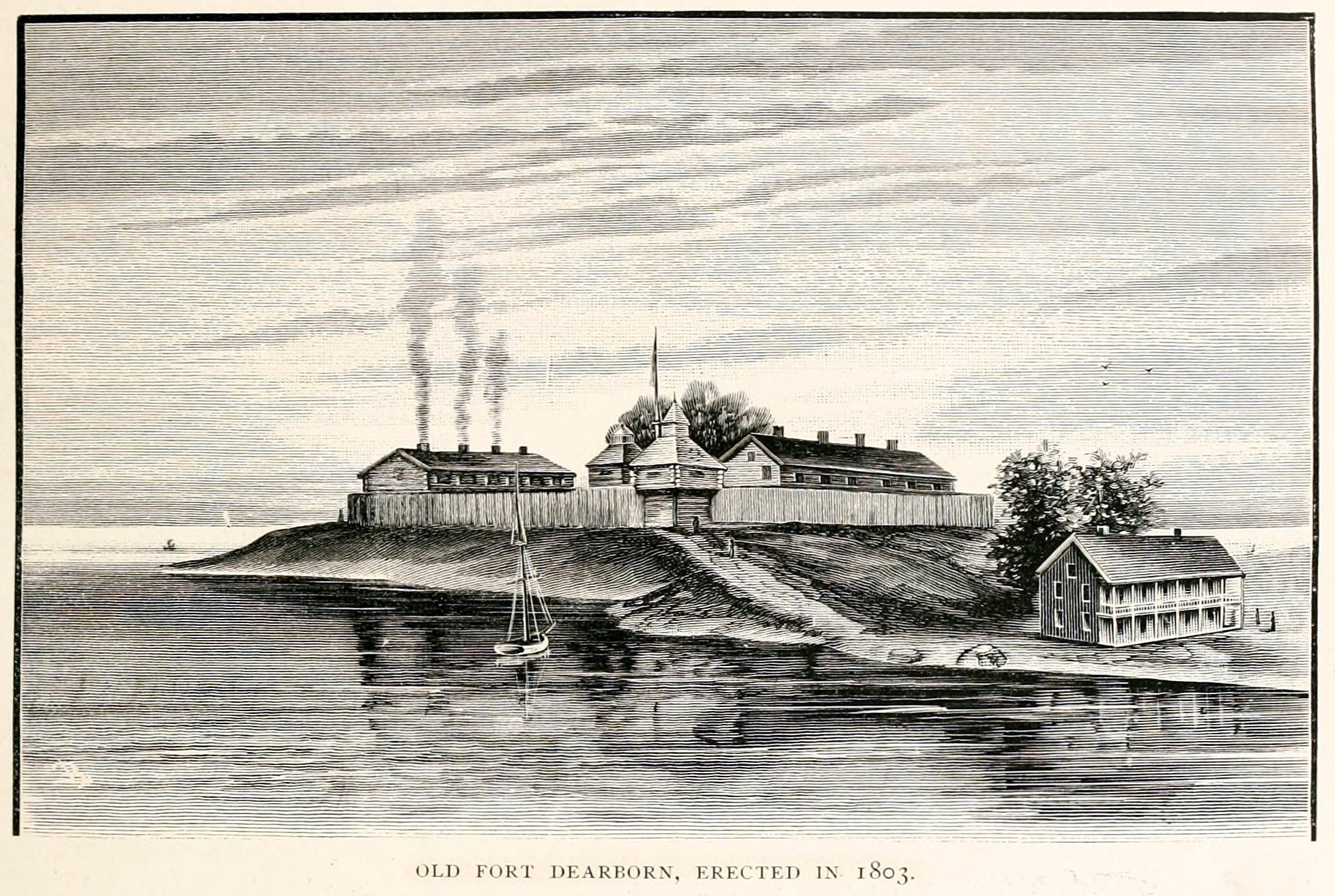 Old Fort Dearborn, erected in 1803